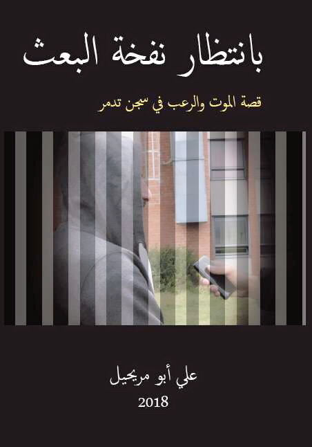 قصة الموت والرعب في سجن تدمر